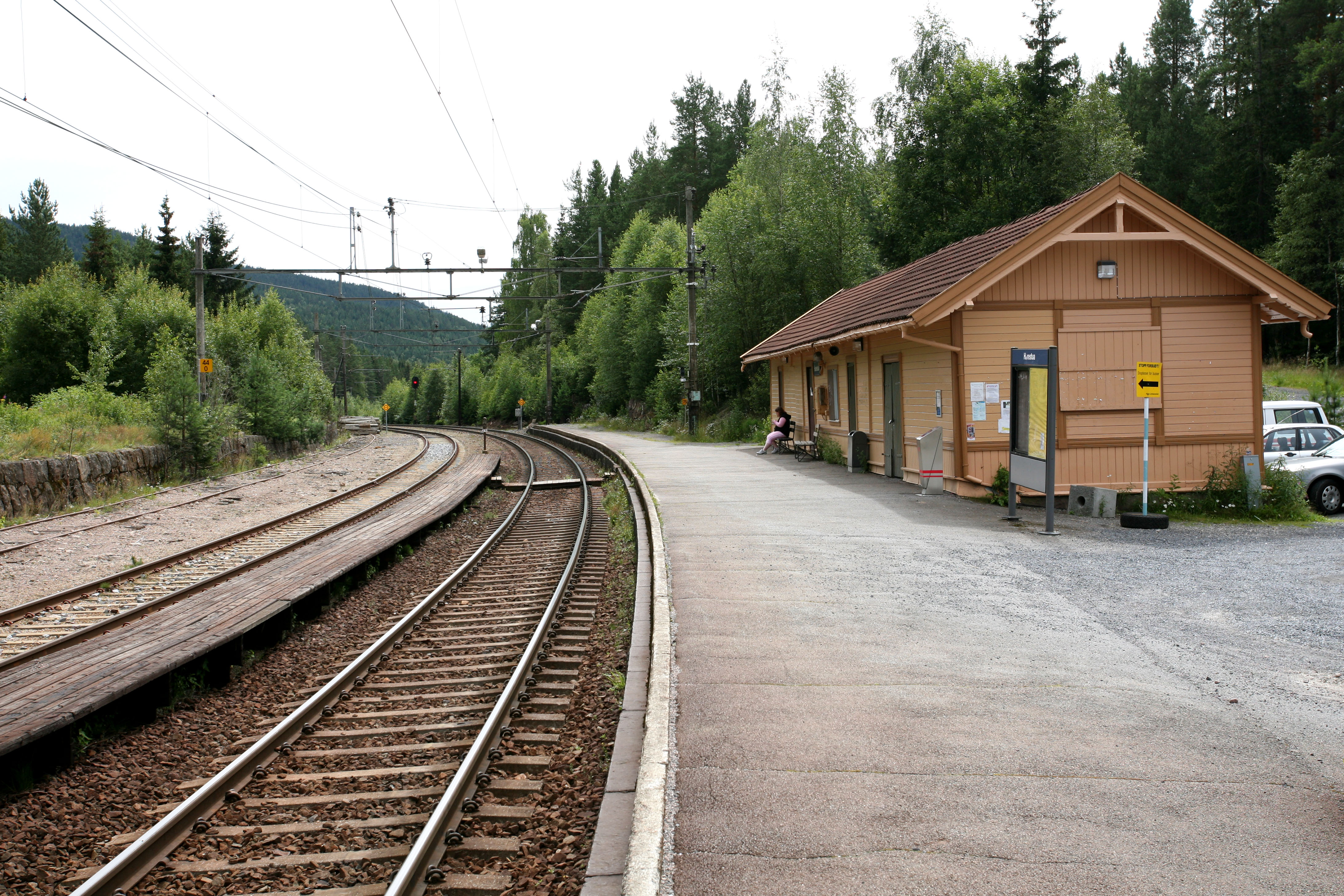 Picture of Harestua Railway Station (Norway)